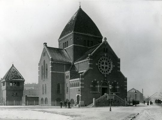 Brorson's Church on Rantzausgade in Copenhagen, Denmark